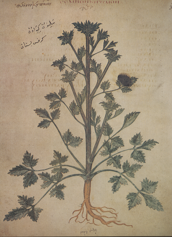 Apium graveolens folio 306r